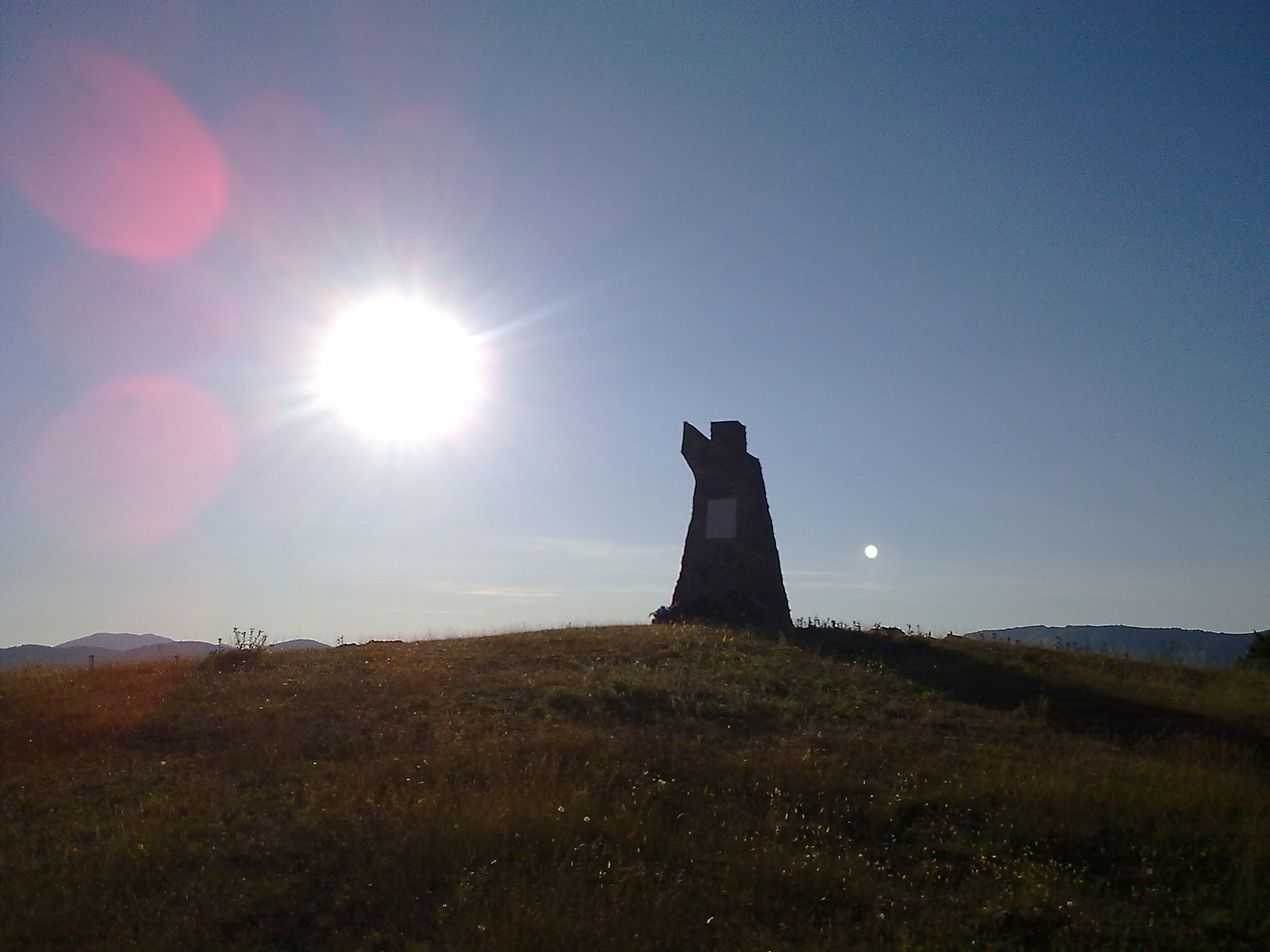 Sliva Monument near Kruševo